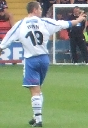 Ashley Winn.